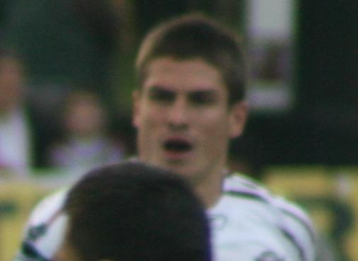 picture of a tackle in rugby league - manly sea eagles vs roosters in june 08, brookie oval, sydney, australia. Eagles won 42-0 (hooray!)